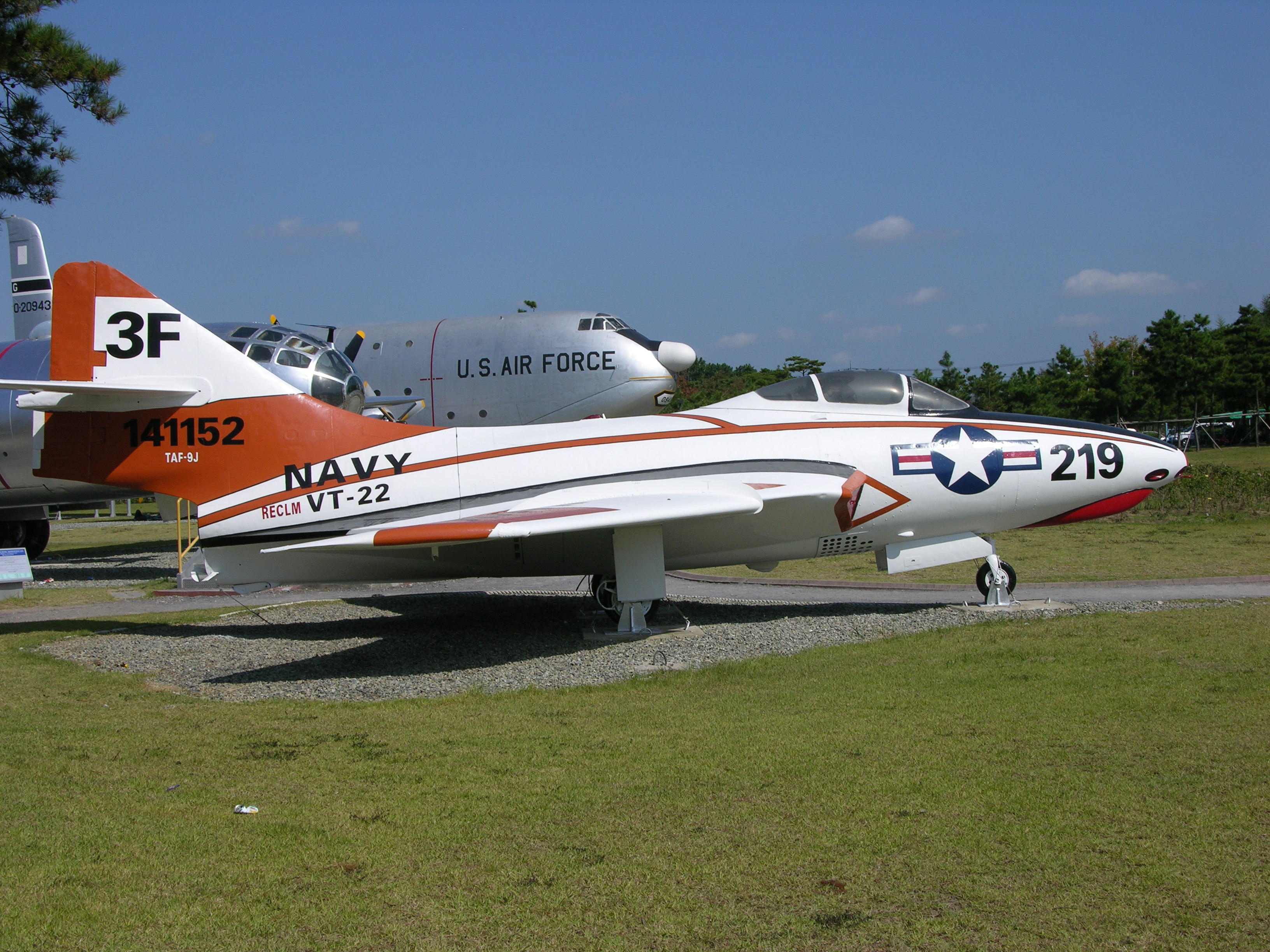 This is an interesting demonstration of the way the aircraft are preserved. When this jet finsished its life with VT-22 it was retired to Davis Monthan AFB, Arizona for storeage on the 23 of April 1970, leaving on the 1st of October 1973, presumably to Korea. The jet appears to be in pristine condition and the MASDC park code has been removed. However, when it was in D-M it had RECLM - for reclamation - paionted on the rear fuselage. Presumably the museum stuff don't realise the significance of the lettering and have included it in the aircraft's paint scheme.